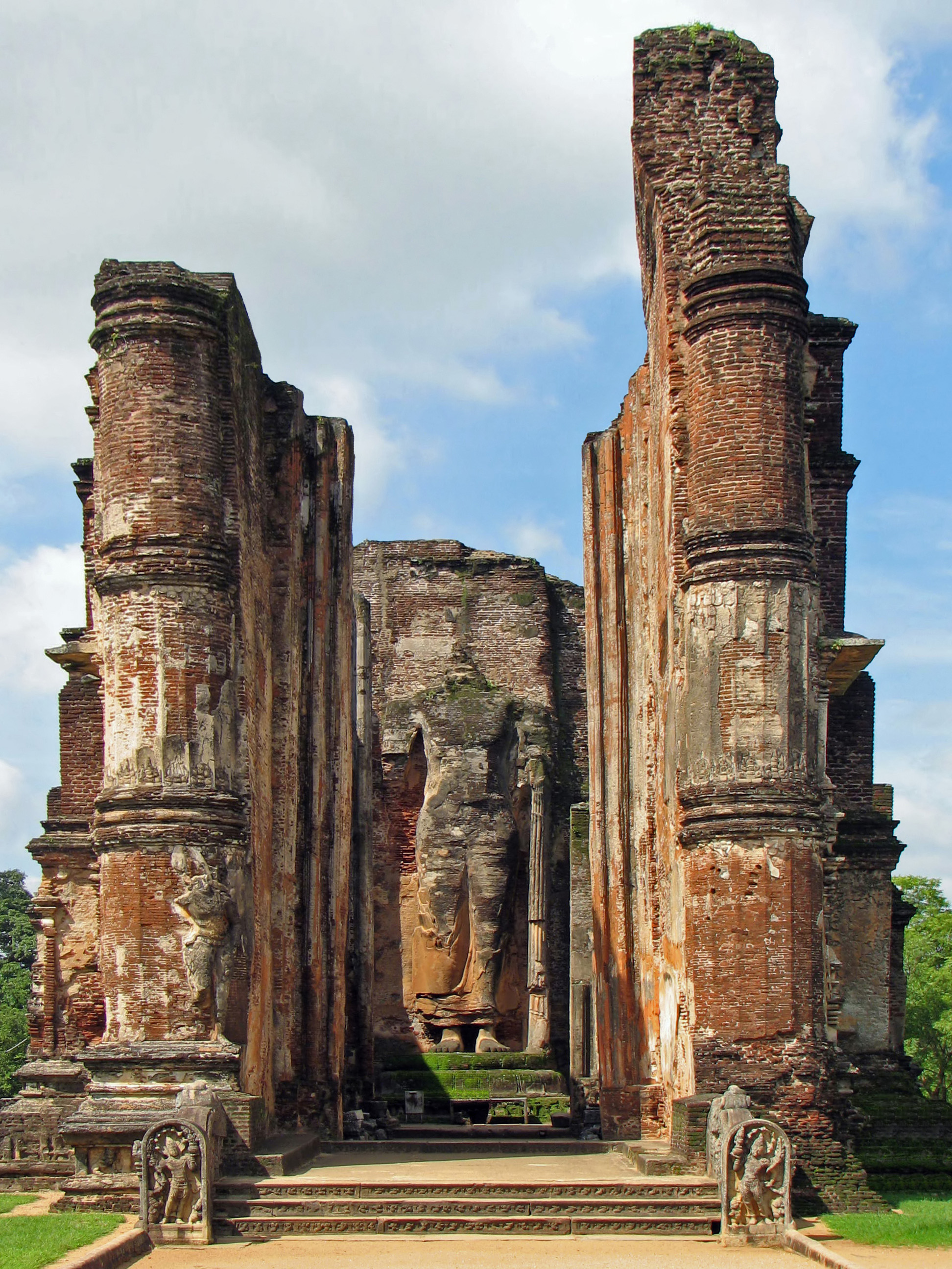 Lankatilaka temple, Polonnaruwa, Sri Lanka